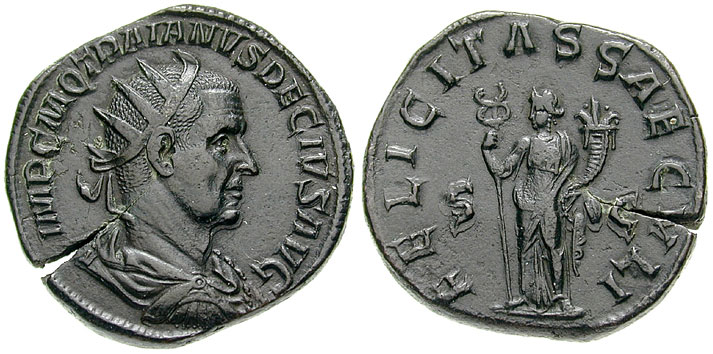 Trajan Decius Æ Double Sestertius. IMP C M Q TRAIANVS DECIVS AVG, radiate, draped & cuirassed bust right FELICITAS SAECVLI S-C, Felicitas standing facing, head left, holding caduceus & cornucopiae. Cohen 40.